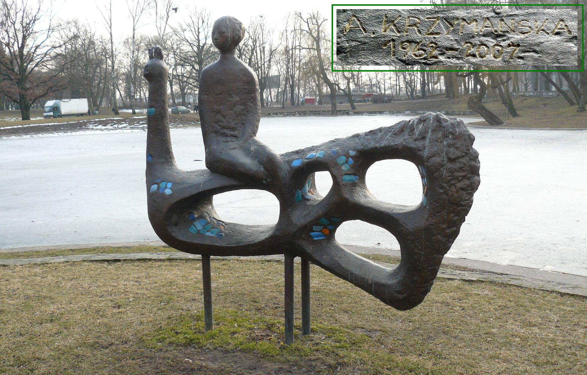 "Pavo", Anna Krzymanska, Poznan, Marcinkowskiego Park.